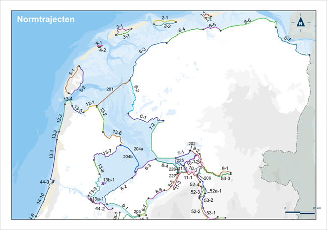 Dike sections in the Netherlands were the allowable inundation probability (failure probability) is given in the Water Law (Northern Netherlands)